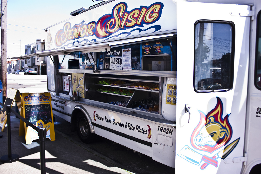 Taken on February 24, 2012 in the San Francisco Bay Area